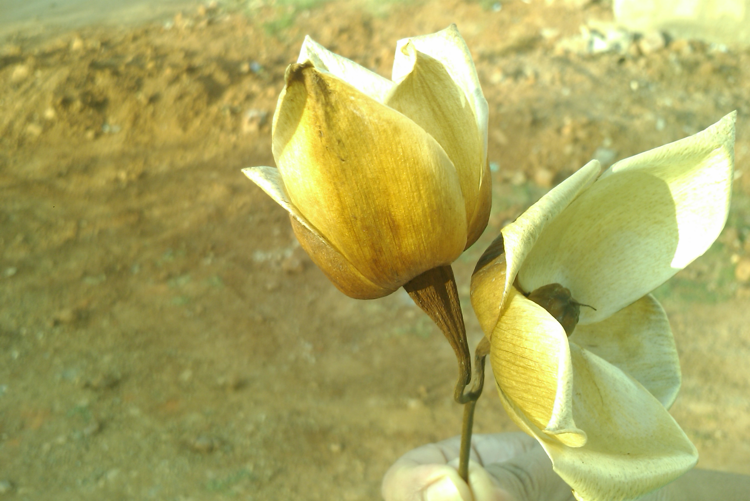 Wood Rose or Merremia tuberosa.